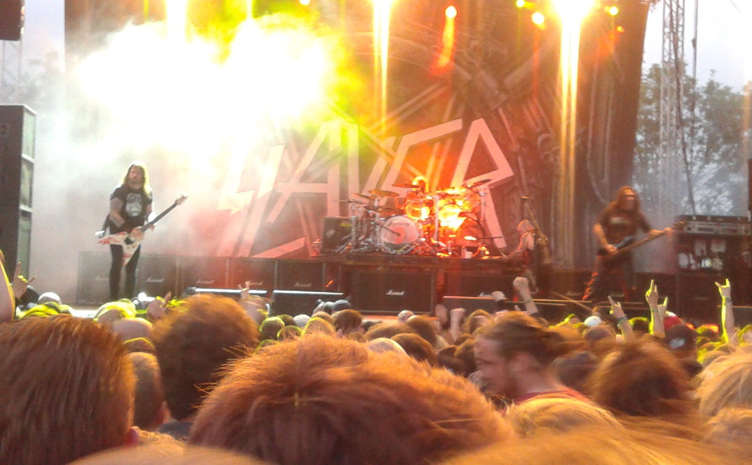 Slayer at Vainstream Rockfest in Muenster, June 9 2012